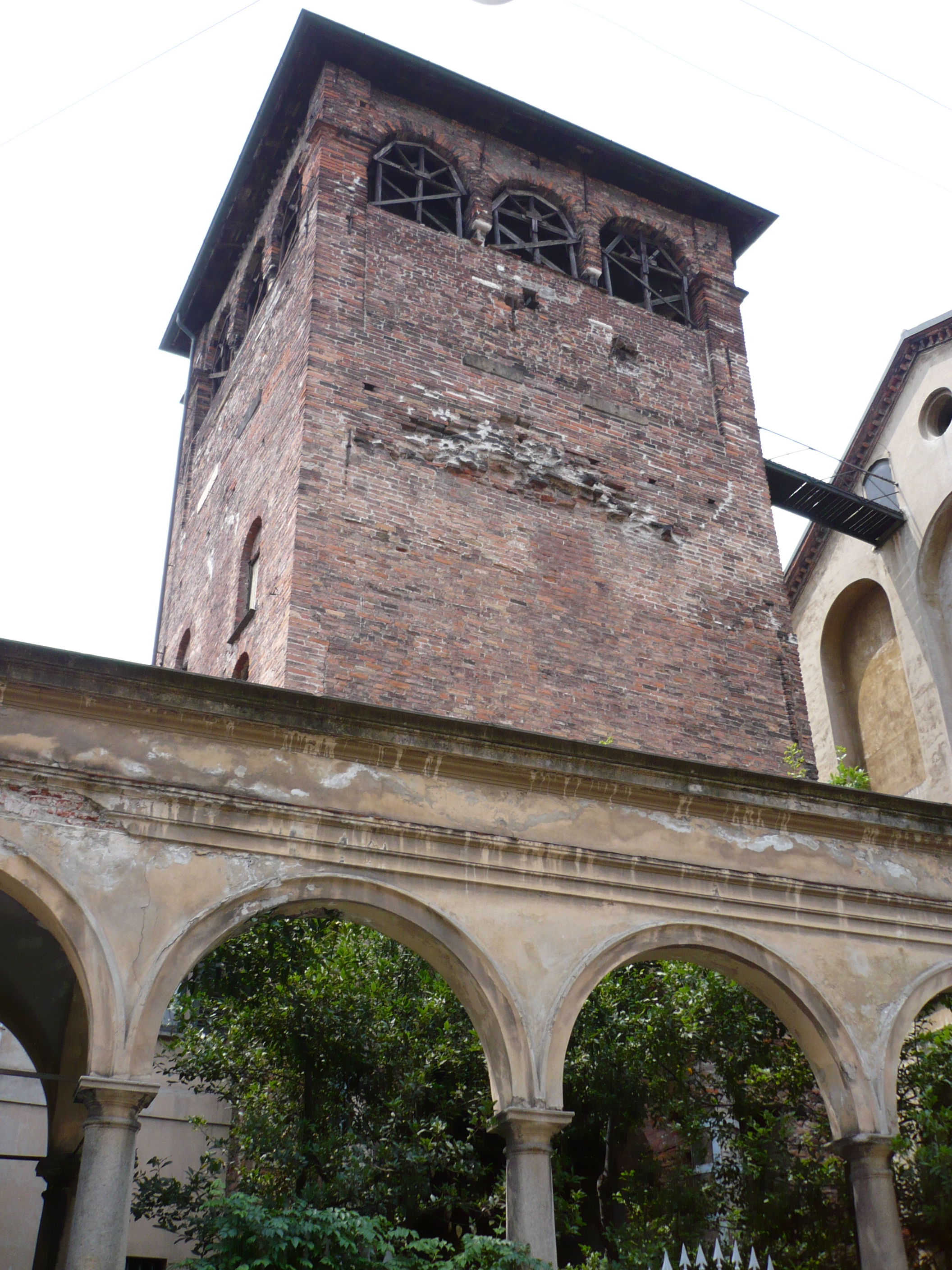 The only preserved tower of the carceres of the roman Circus, now the campanile of Chiesa di San Maurizio al Monastero Maggiore, Milan